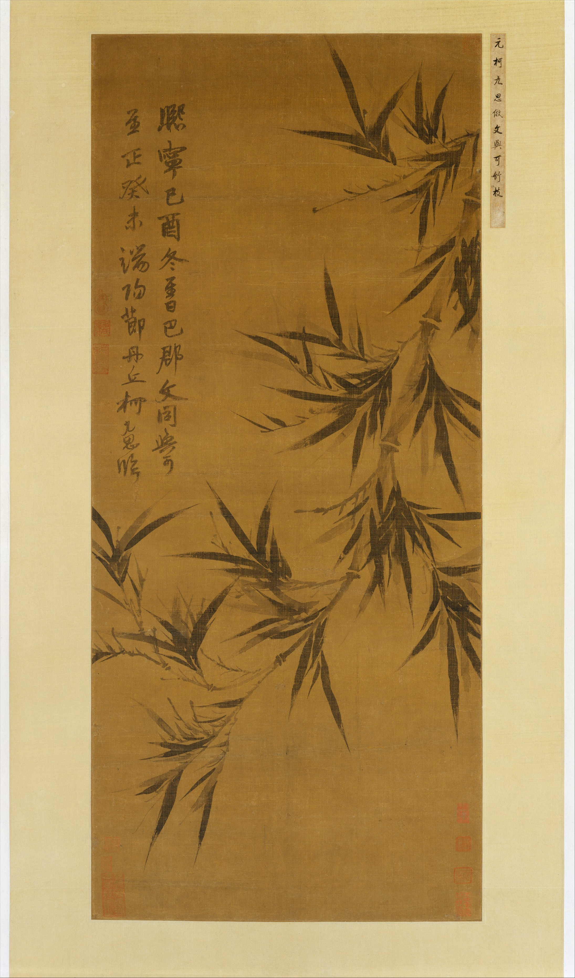 Ke Jiusi, Bamboo after Wen Tong, 1343, Metmuseum